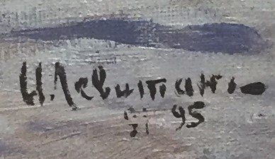 "A fresh breeze. On the Volga" (artist's signature on the painting by Isaac Levitan, 1895, State Tretyakov Gallery)